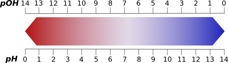 A simple pH (and pOH) scale, for multi-language use.